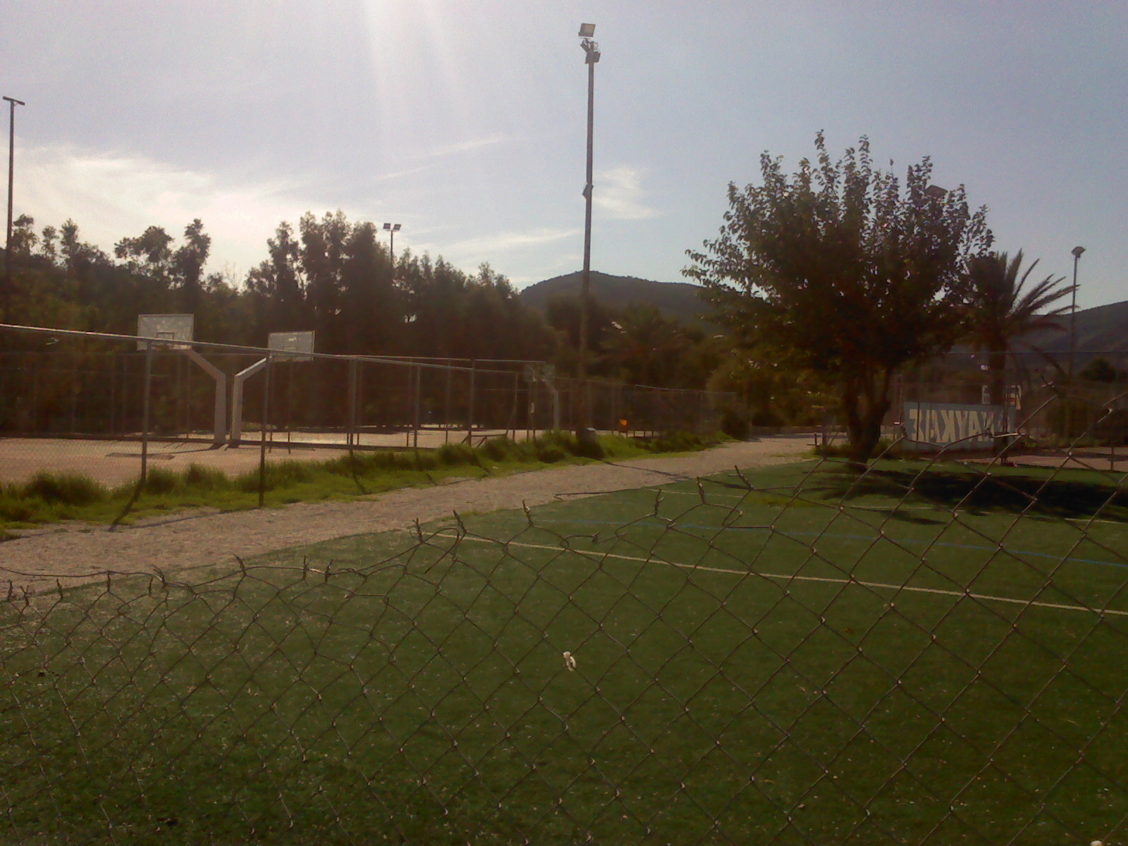 Terrains Porto Rafti